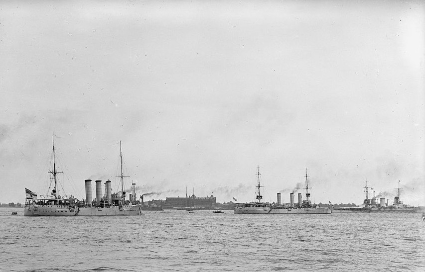 The German cruisers SMS Bremen, SMS Stettin and the battlecruiser SMS Moltke (l-r) at Hampton Roads, Virginia (USA), on 3 June 1912.